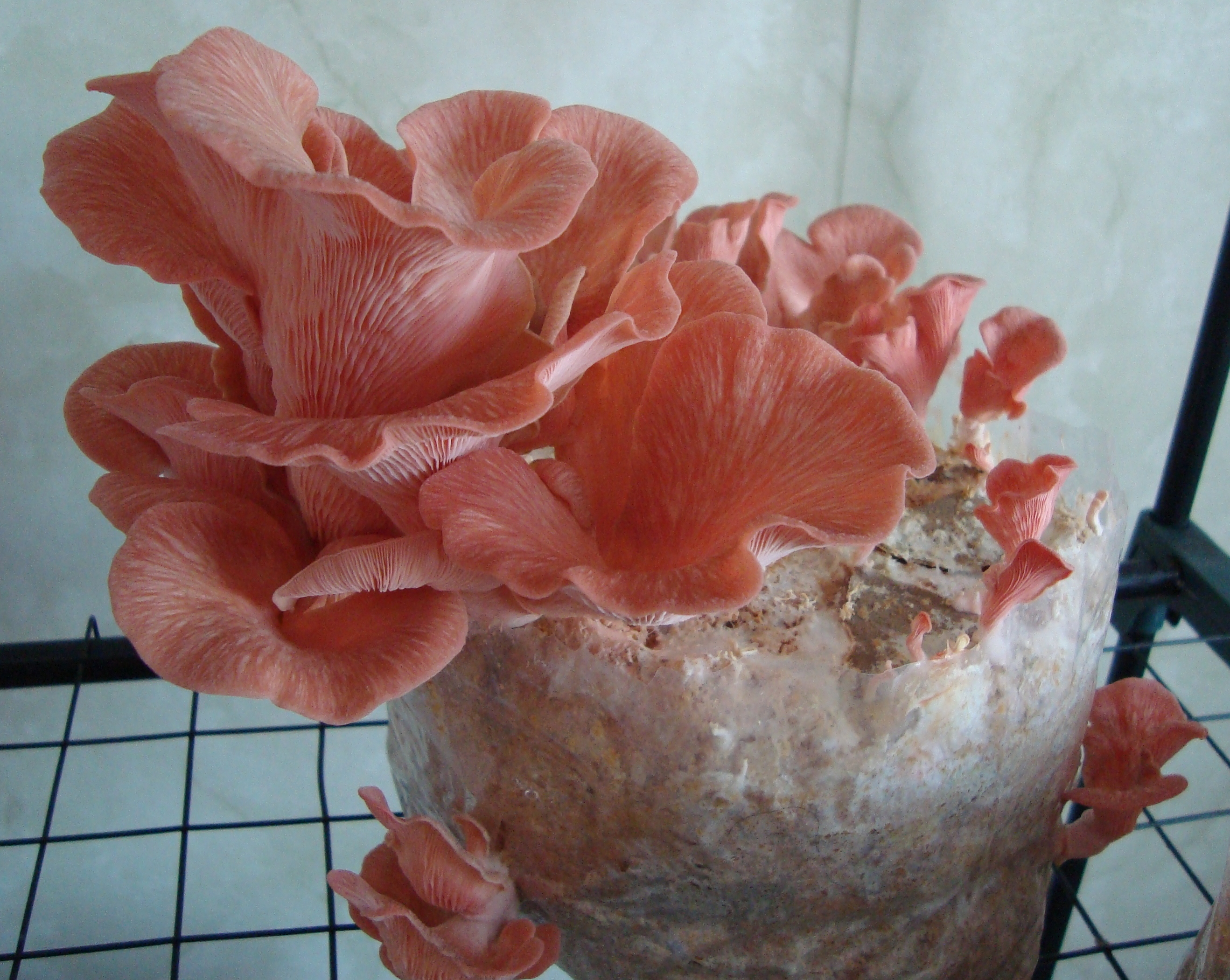 Photograph I took home cultivated Pleurotus djamor.